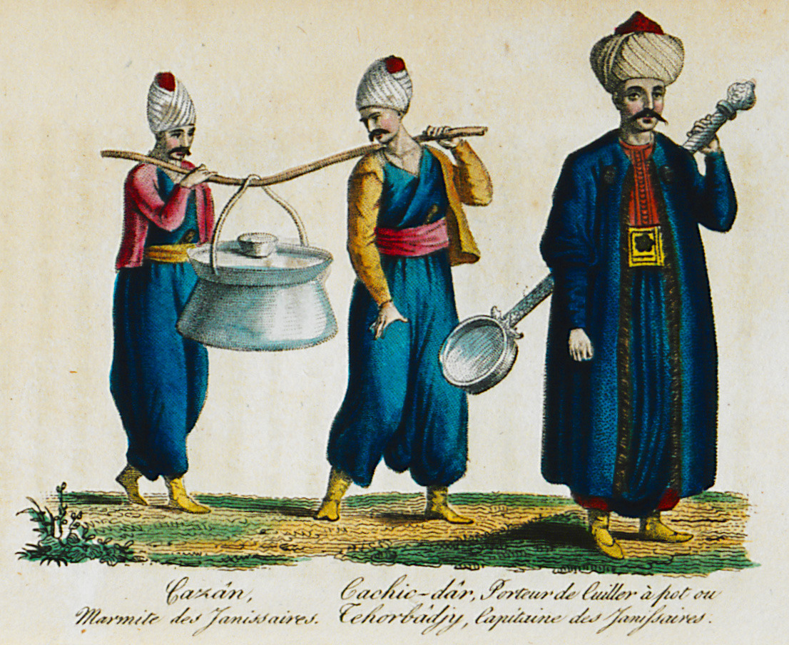 Antoine-Laurent Castellan. Moeurs, usages, costumes des Othomans, et abrégé de leur histoire; par A. L. Castellan, auteur de Lettres sur la Morée et sur Constantinople, Paris, Nepveu, 1812.